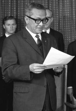 Abdul Hamid bin Haji Jumat as Ambassador of Malaysia to the Federal Republic of Germany during the conclusion of agreement for developmental assistance at German Federal Foreign Office, Bonn.